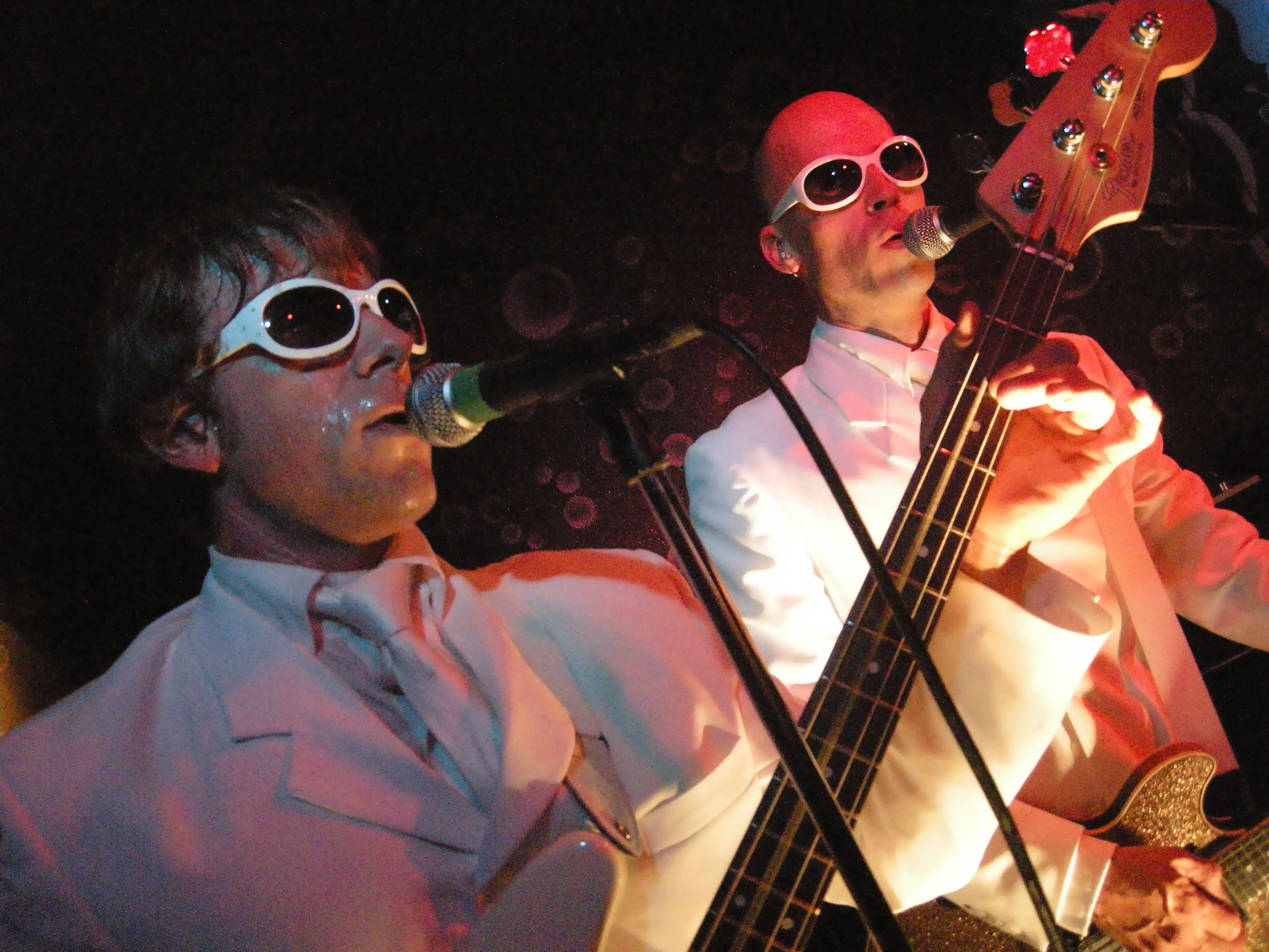 The Laundronauts, Gareth Wynne and Stephen J., playing at Bar Pink in San Diego, California.